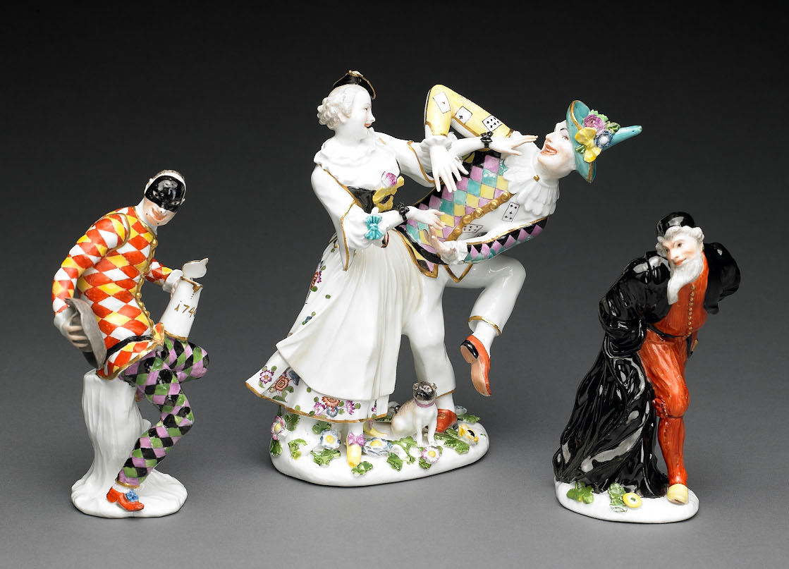 Three porcelain figures modeled by Johann Joachim Kaendler and made at the Meissen porcelain manufactory. The figures are based on characters from the Commedia dell'arte.